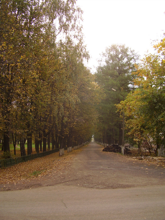 Park alley and the road from the barons Bode Family palace in the cemetery